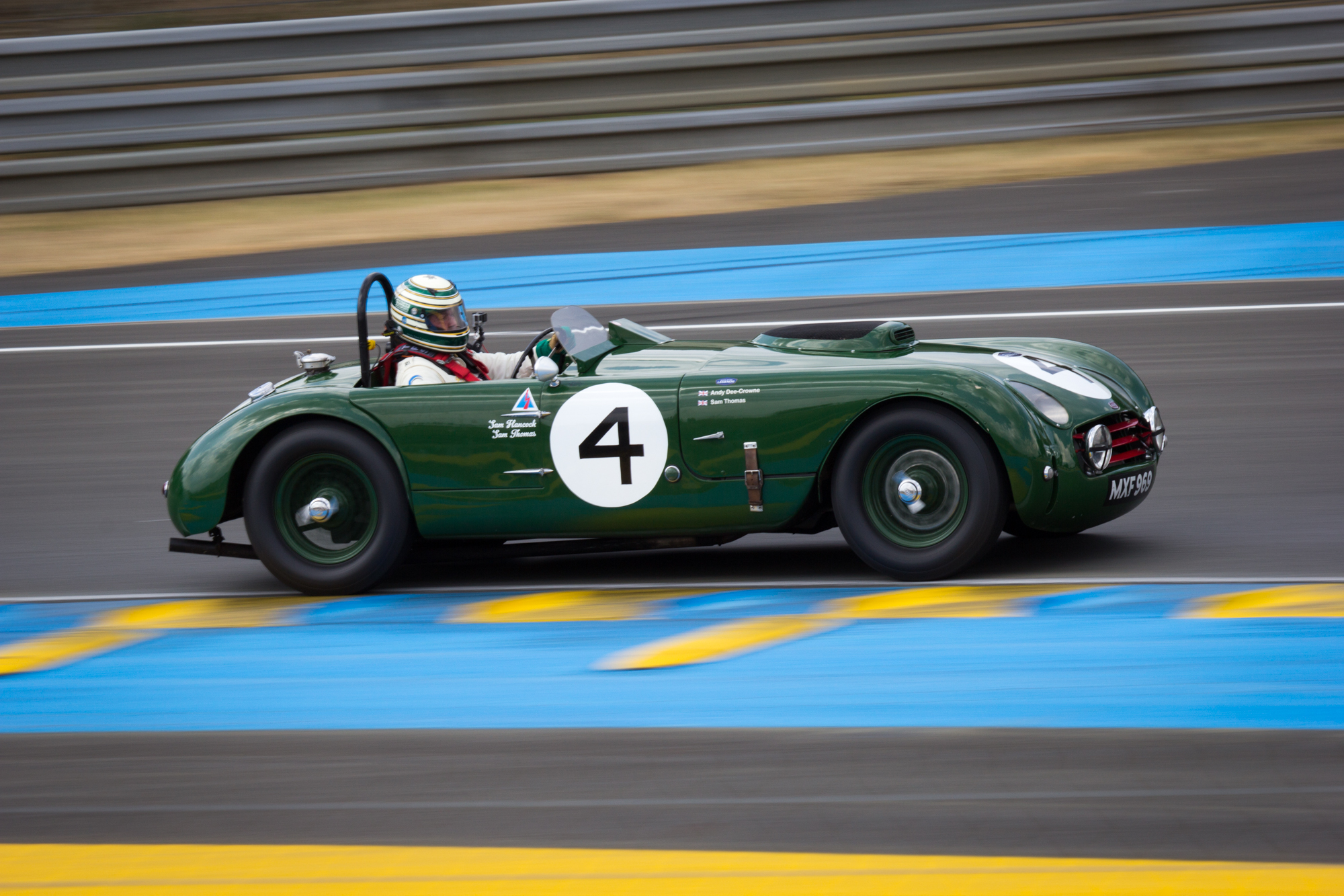 Le Mans Legend 2015 Driver: Andy Dee-Crowne